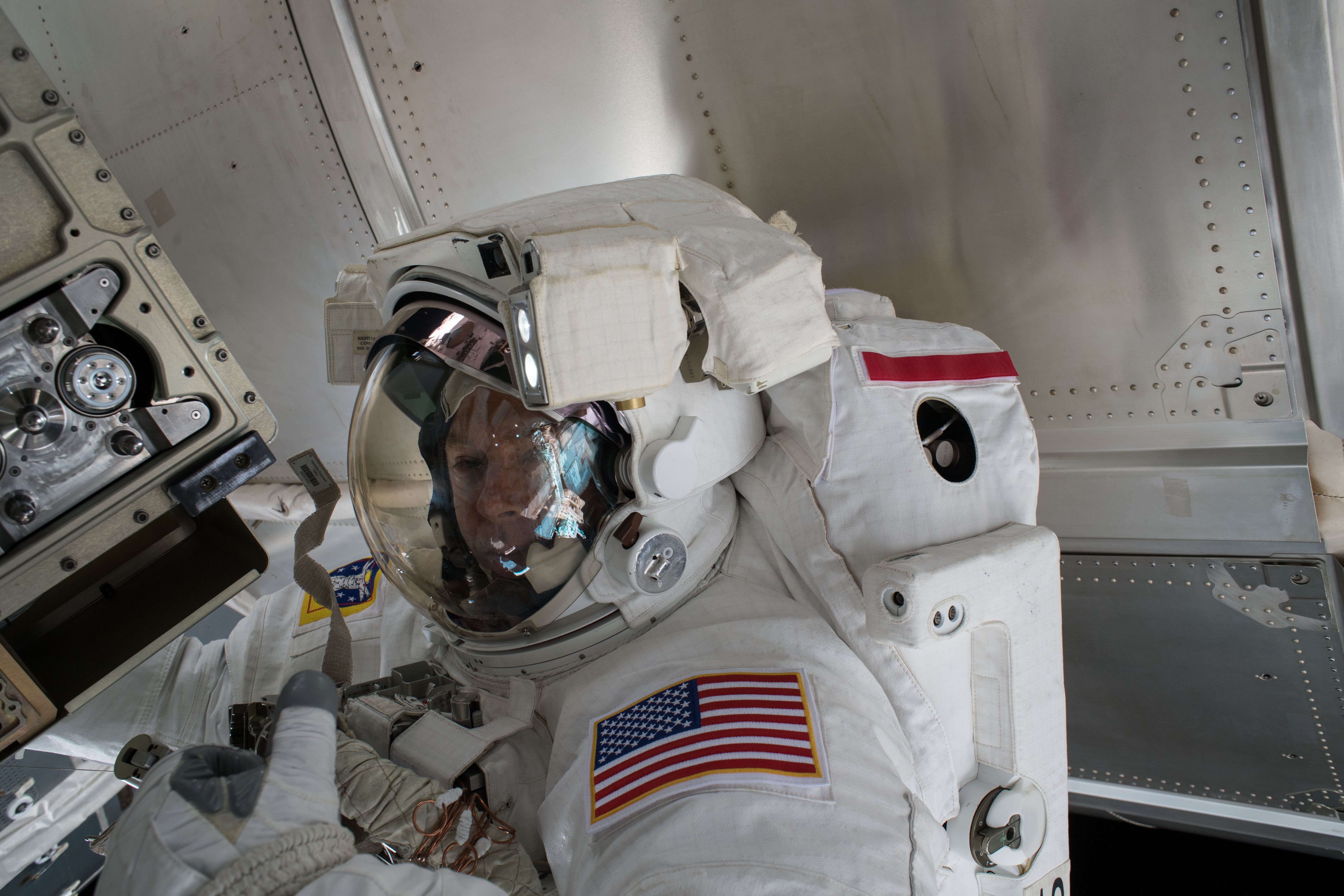 Astronaut Drew Feustel is pictured outside of the International Space Station during a spacewalk on May 16 to swap thermal control gear.